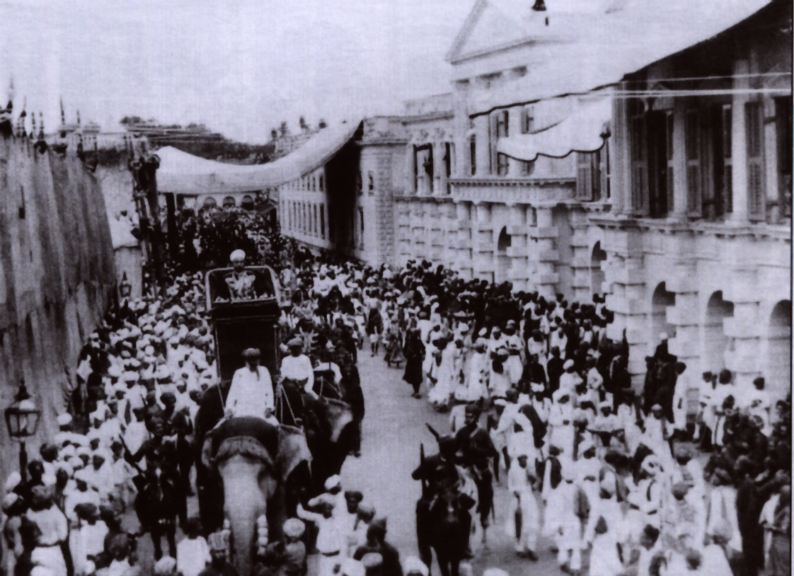 Viqar al-Umara, Diwan of the Indian state of Hyderabad, riding an elephant through the city.